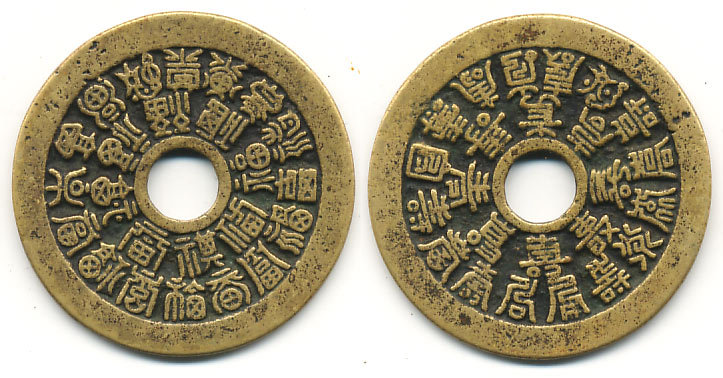 A Yasheng/Yansheng coin, full of Chinese characters. A self-collection